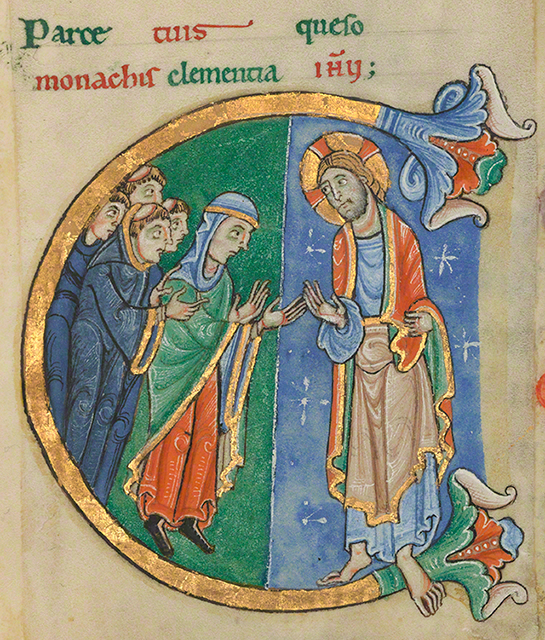 St. Alban's Psalter with artwork of the woman thought to be Christina of Markyate.